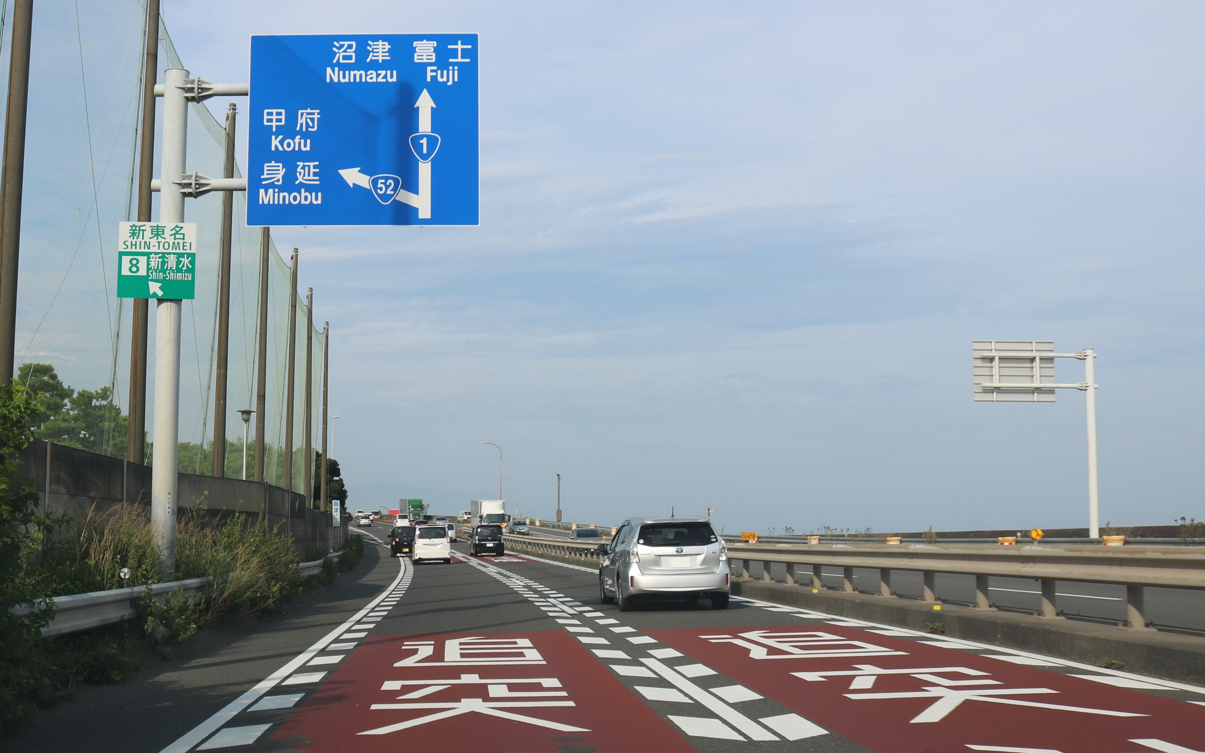 Okitsu Interchange of Seishin Bypass (Route 1) in Okitsunakacho, Shimizu-ku, Shizuoka City, Shizuoka Prefecture, Japan.